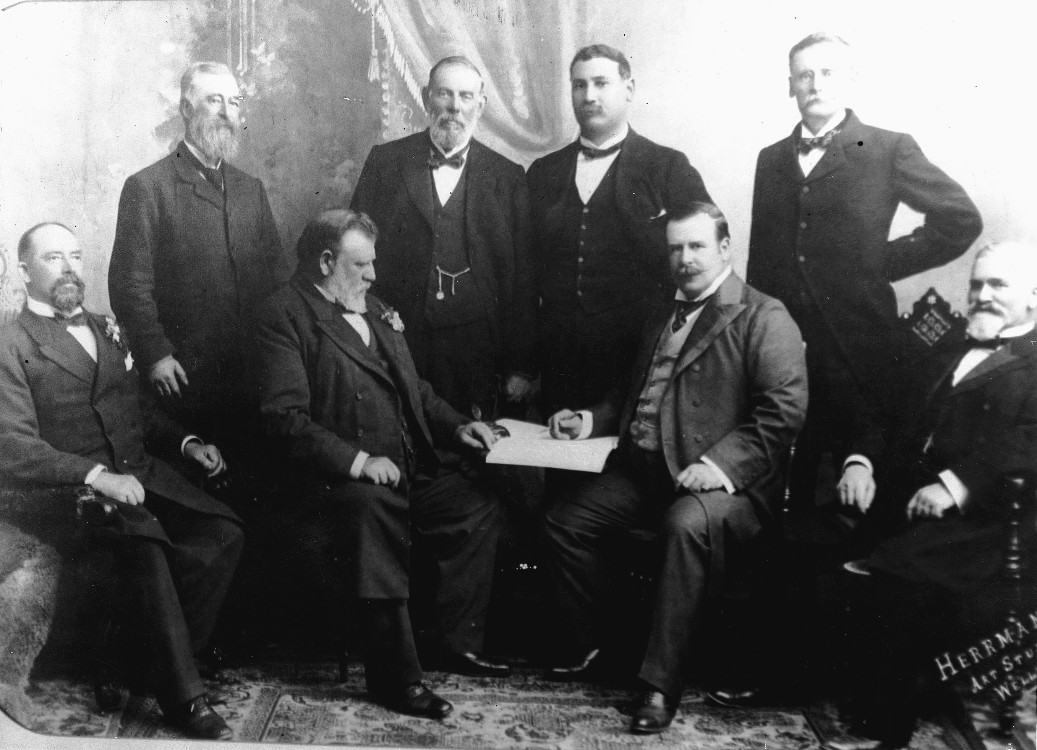 Seddon Ministry. Back row, left to right: William Campbell Walker, Thomas Young Duncan, James Carroll, William Hall-Jones. Front row, left to right: Charles Houghton Mills, Richard John Seddon, Joseph Ward, James McGowan. Taken by an unidentified photographer in 1900.